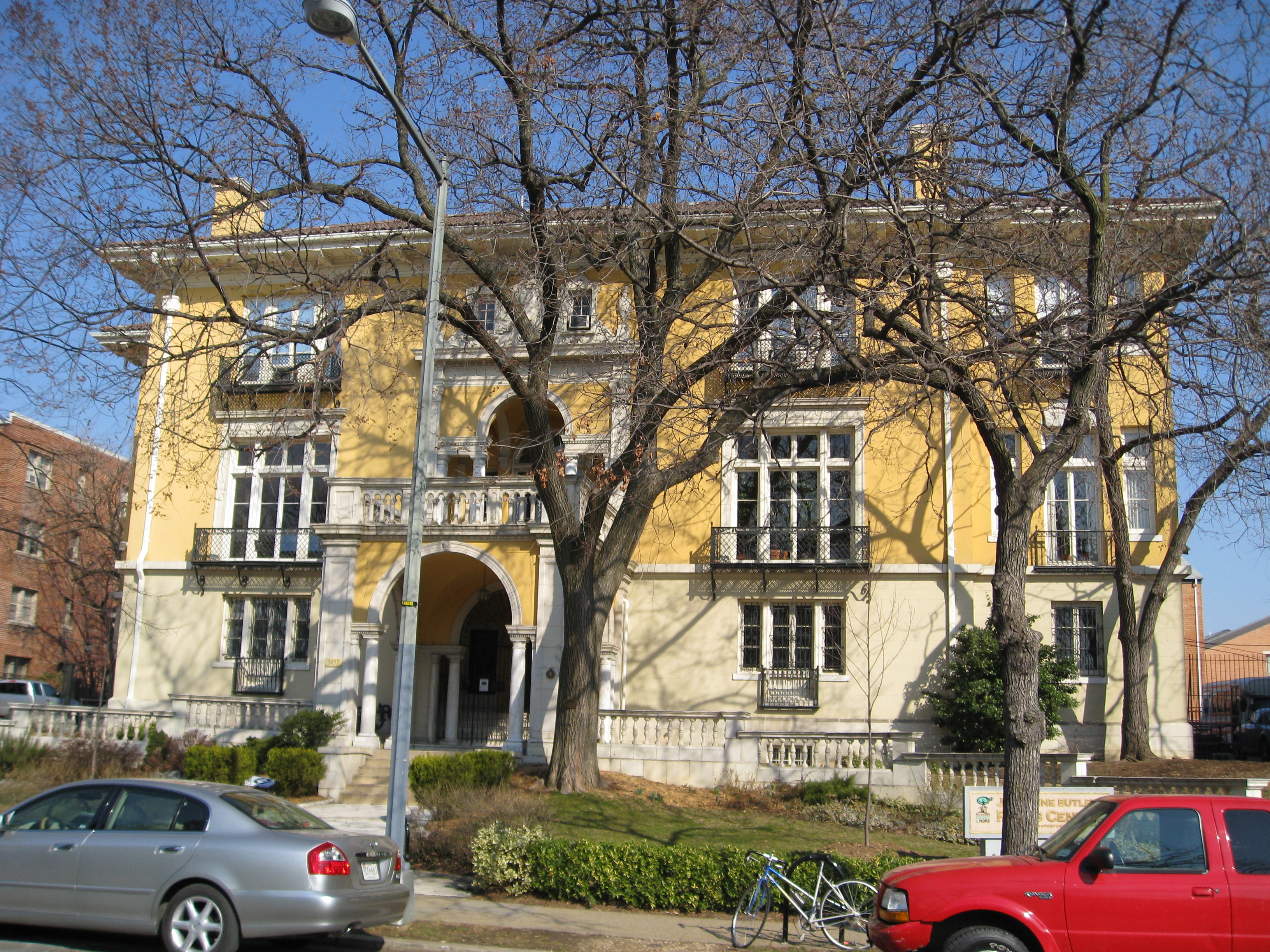 House at 2437 Fifteenth Street, NW , Washington, DC (now known as the Josephine Butler Parks Center)